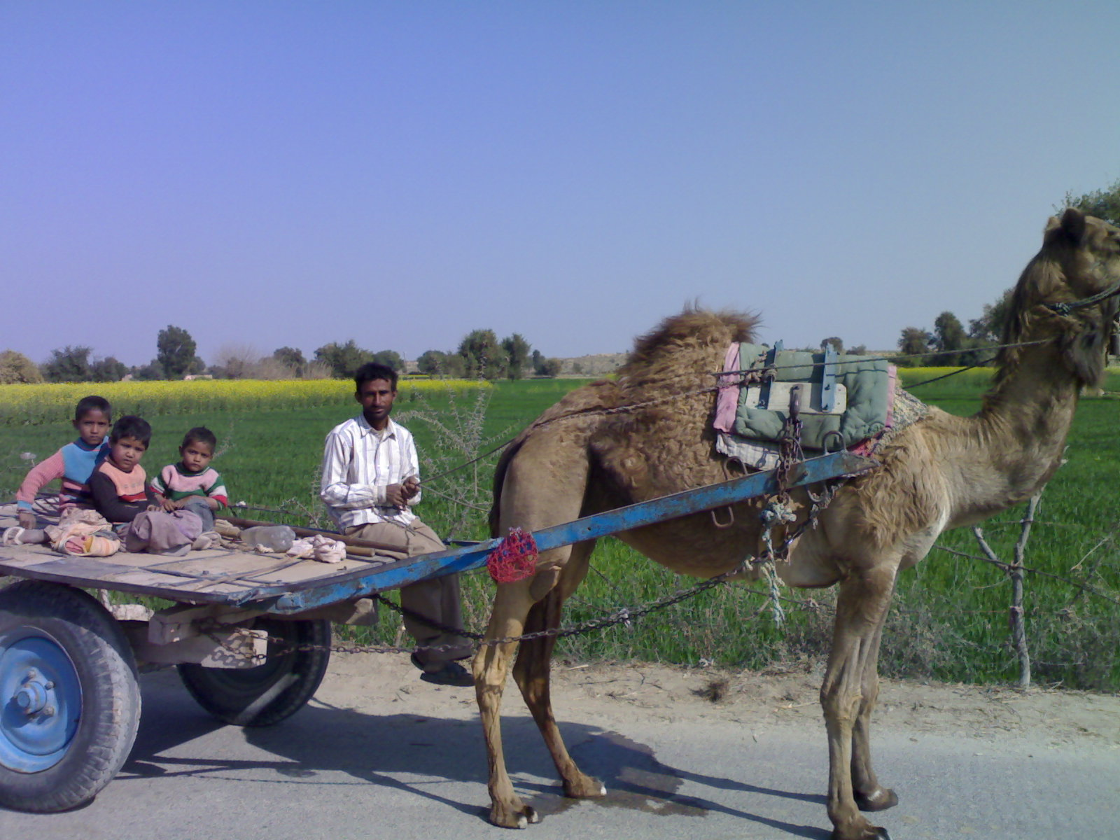 This photo show you a camel cart in a village of Ganganagar district.This photo is created by me(user:Shemaroo aka Sivender Singh, ) Shemaroo (talk) 12:40, 5 March 2011 (UTC)